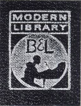 Boni & Liveright second colophon, used as early as 1920 ( Green Mansions..A Romance.by W.H. Hudson)